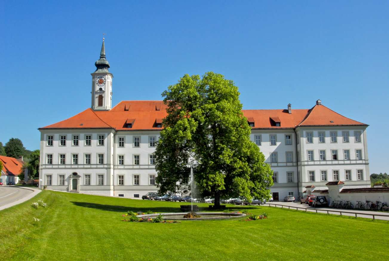 Kloster Schäftlarn, monastery, from South